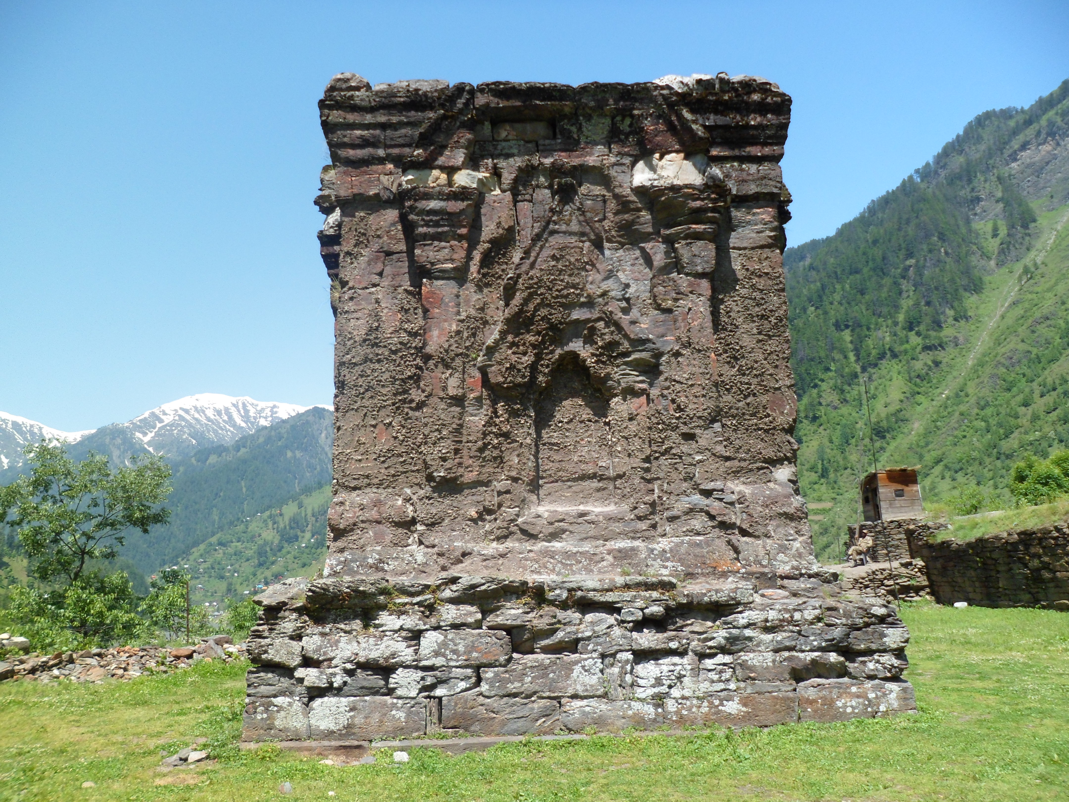 Sharda Temple (Sharada Peeth). Sharda is a small town situated in Azad Kashmir, Pakistan. It is famous for its ruined temple structures.